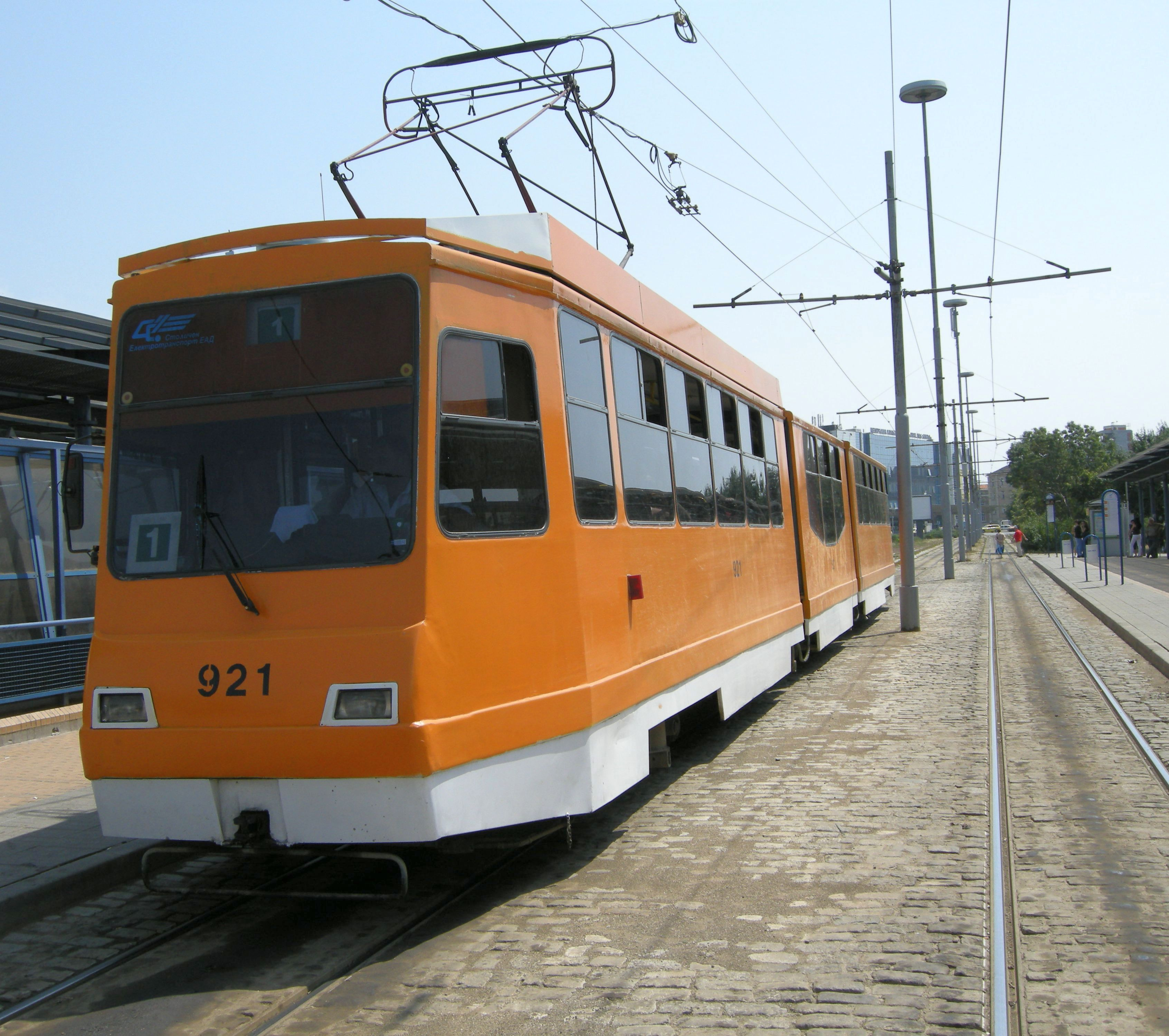 Tram in Bulgaria, at the stop in front of the central train and bus station in Sofia.